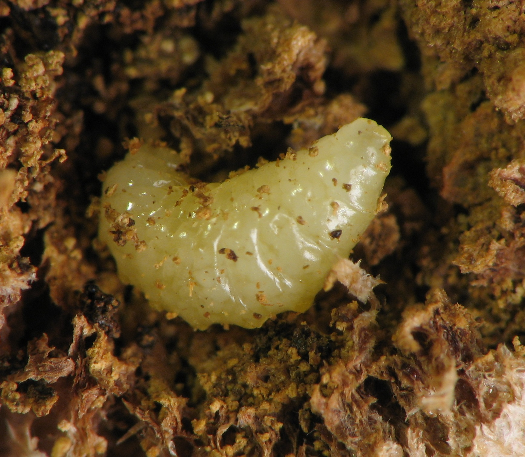 Eurytoma gigantea larva in Goldenrod (Solidago sp.) gall. Churchville Nature Center, Bucks County, Pennsylvania, USA.